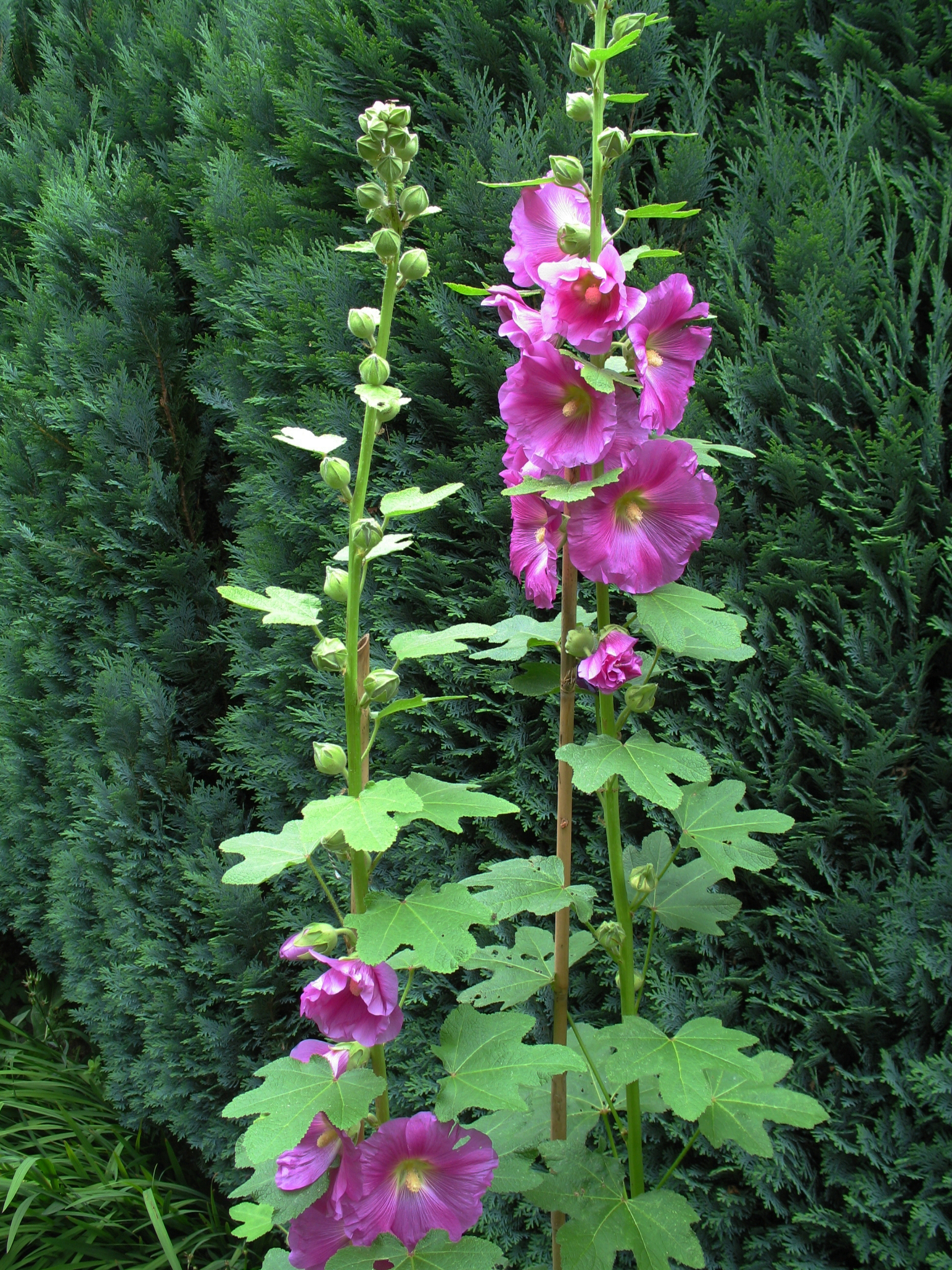 Hollyhock (Alcea rosea)